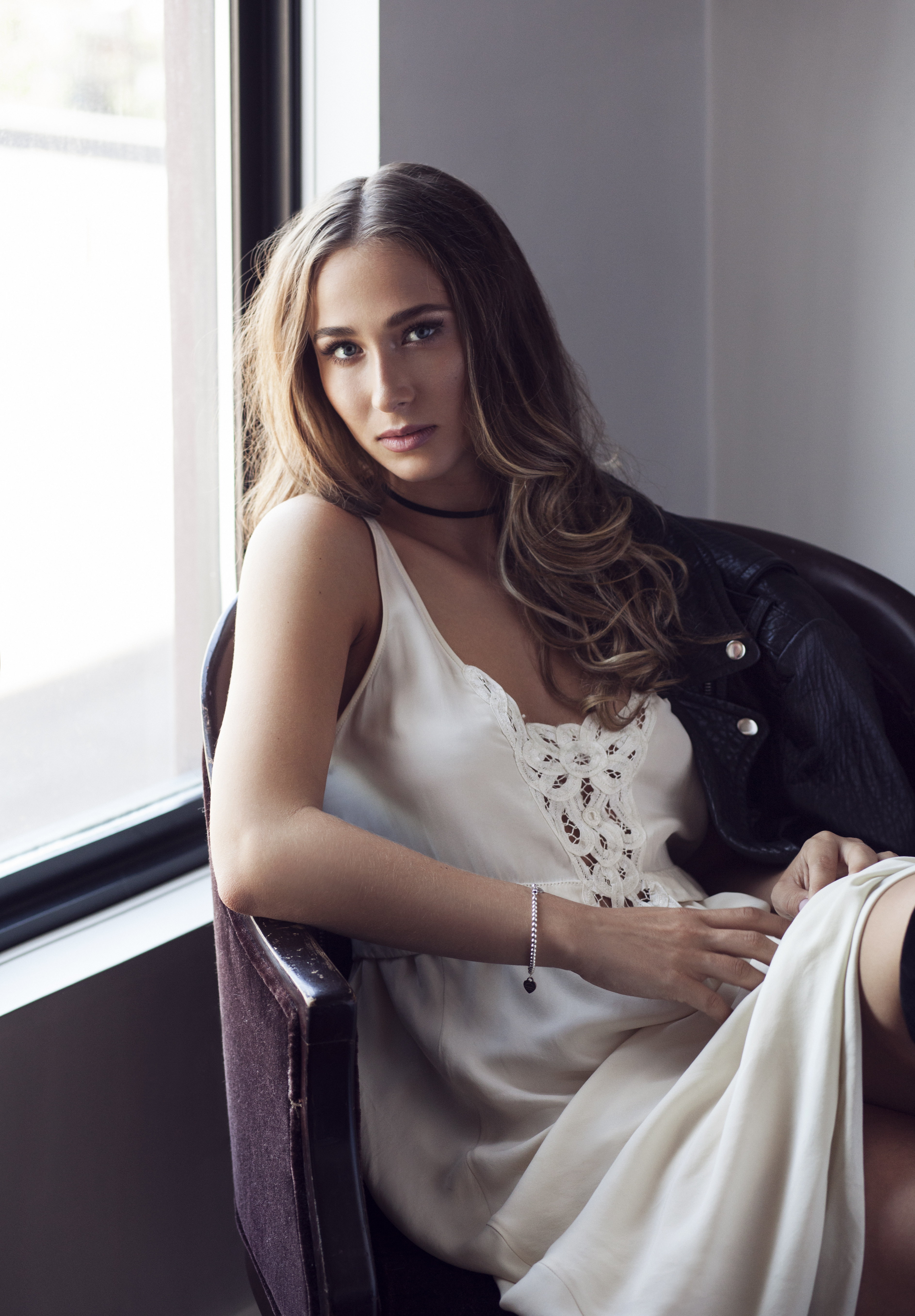 Cover photo for Shae Dupuy's 2016 EP, Brave.